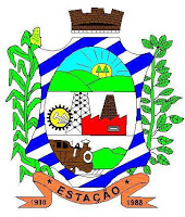 Coat of arms of the city of Estação, Rio Grande do Sul, Brazil.